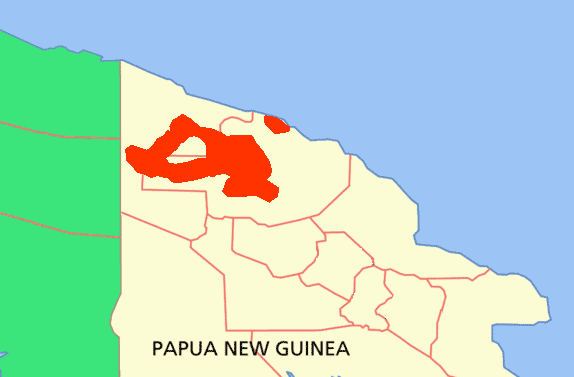 Sepik Languages extending in East Sepik and Sandaun